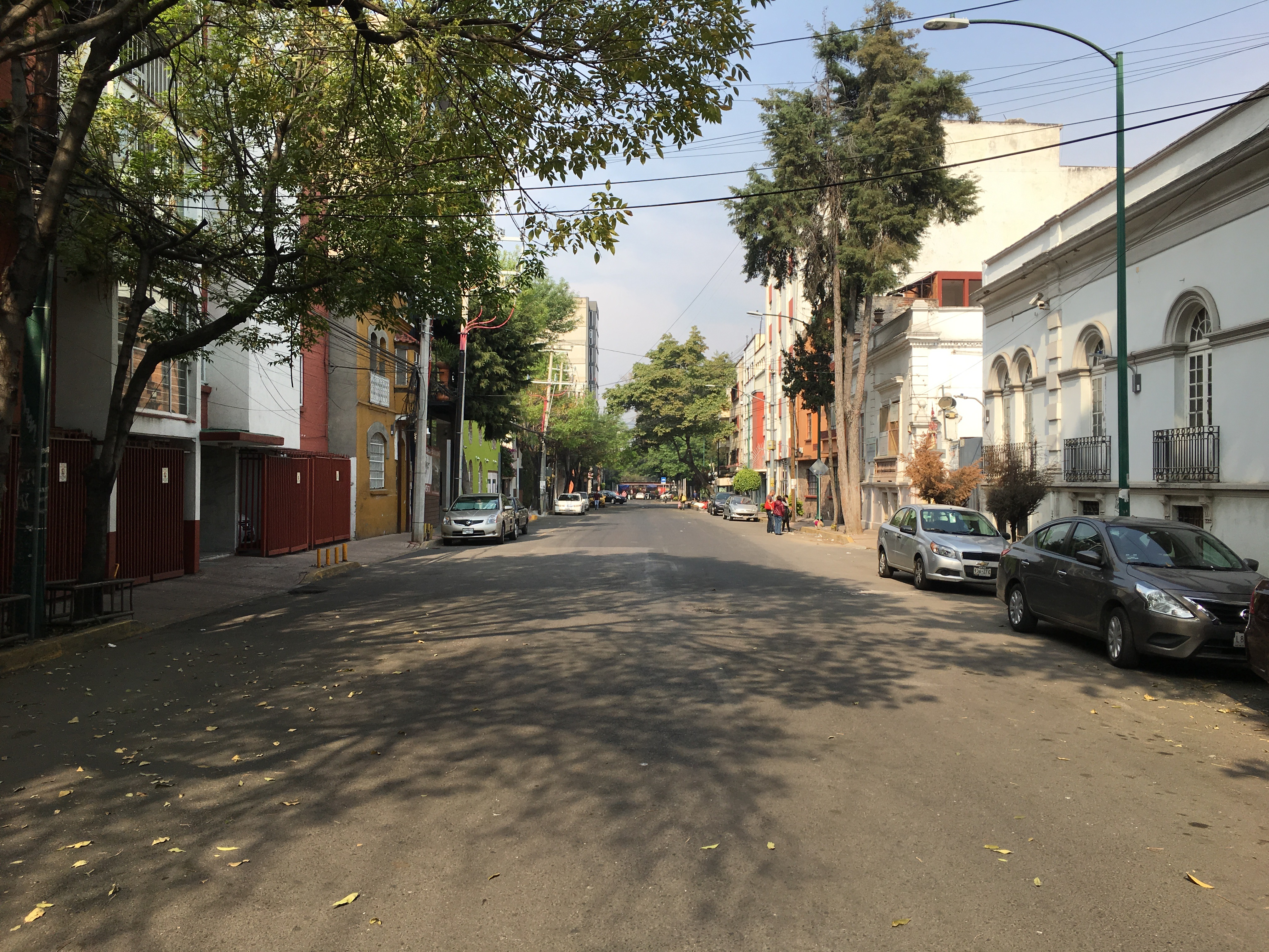 A ver busy street in Escandón, Mexico City curiously empty in December